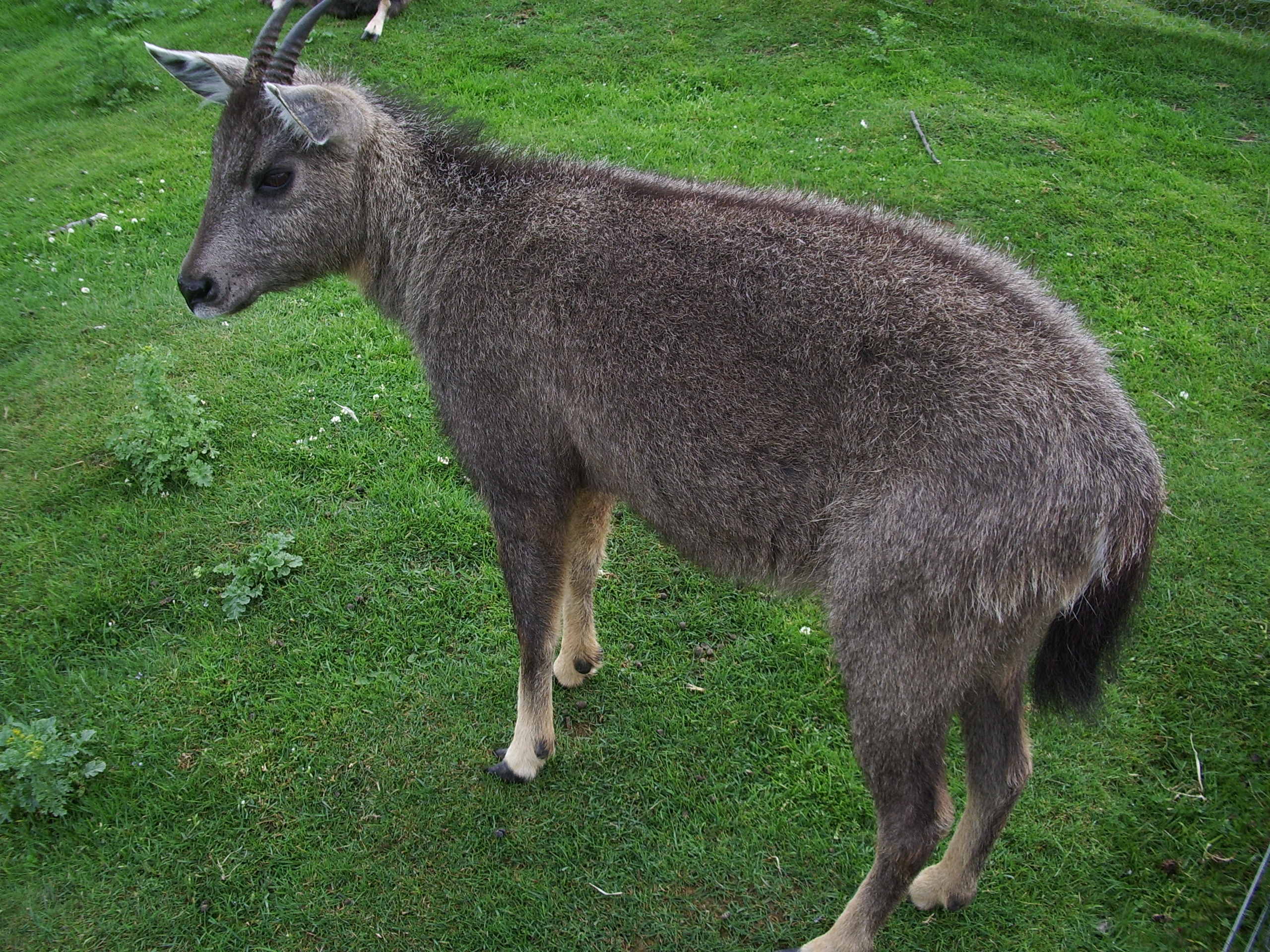 Nemorhaedus griseus arnouxianus kid, identified as Chinese Goral, at the Highland Wildlife Park.